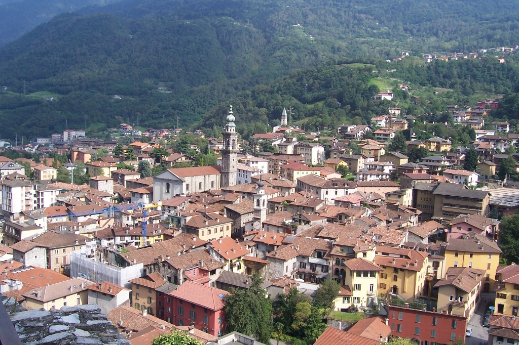 Castle of Breno, Val Camonica